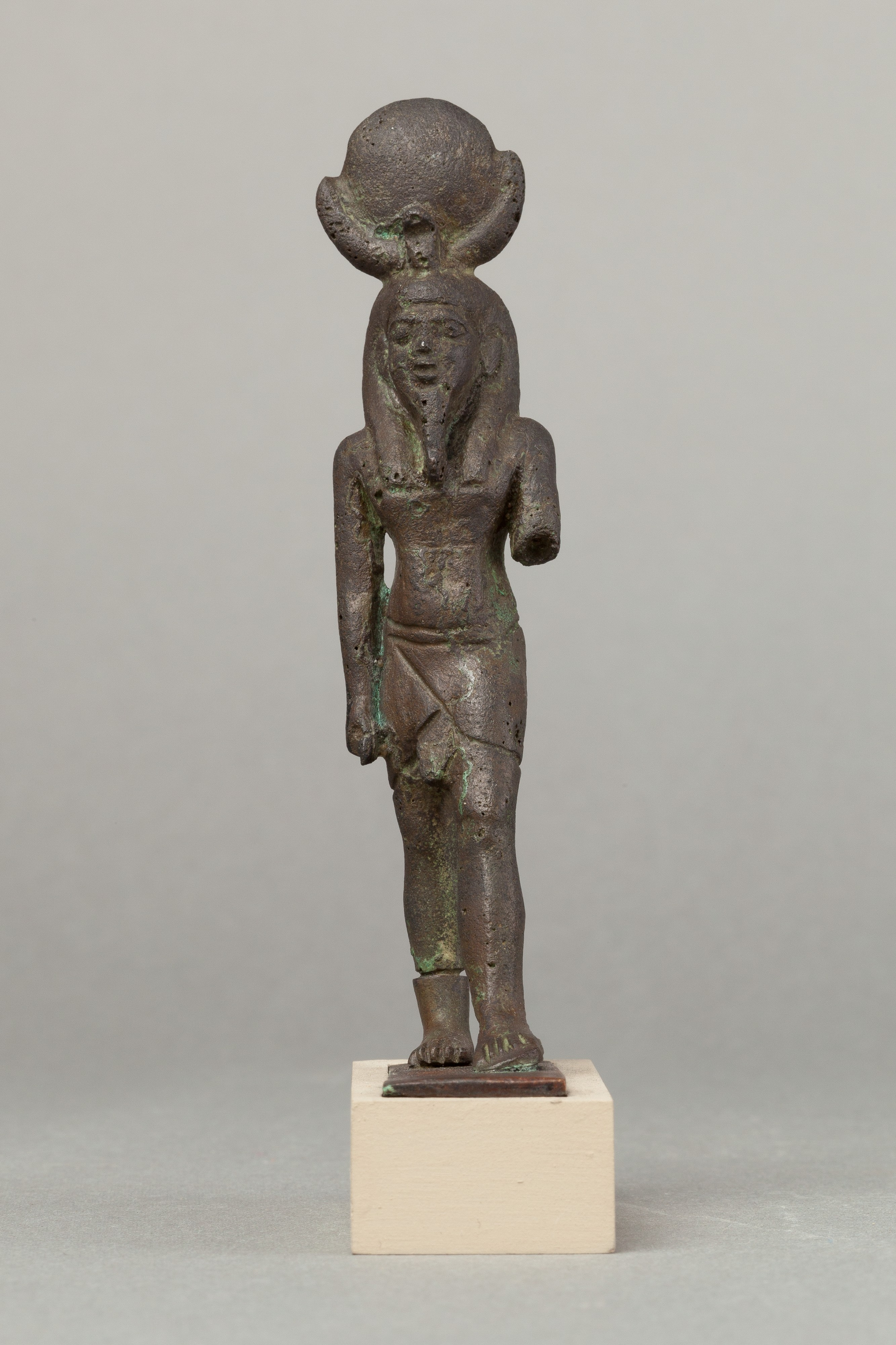 Statuette, Osiris-Iah